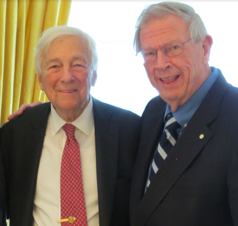 Dean Emeritus John H. McArthur, on the right and John C. Whitehead, on the left, innovators of Harvard Business School's Social Enterprise Initiative, celebrating John McArthur's 80th birthday.